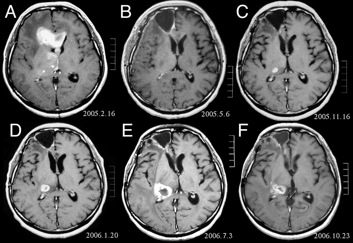 MRI of brain. (A) Initial MRI on February 16, 2005, shows a tumor in the right and left frontal lobe as well as the right thalamus. (B) MRI after surgery, radiation and chemotherapy. The tumor has completely disappeared except for slight enhancement adjacent to the surgical margin. (C) Recurrence of the thalamic tumor despite maintenance chemotherapy on November 16, 2005. (D) Increase in size of the thalamic tumor two months after stereotactic radiotherapy. (E) After 6 cycles of TMZ therapy, the thalamic lesion enlarged, and the patient developed dysarthria and hemiparesis. (F) After 2 courses of treatment with interferon-beta and TMZ, the tumor shows a partial response.